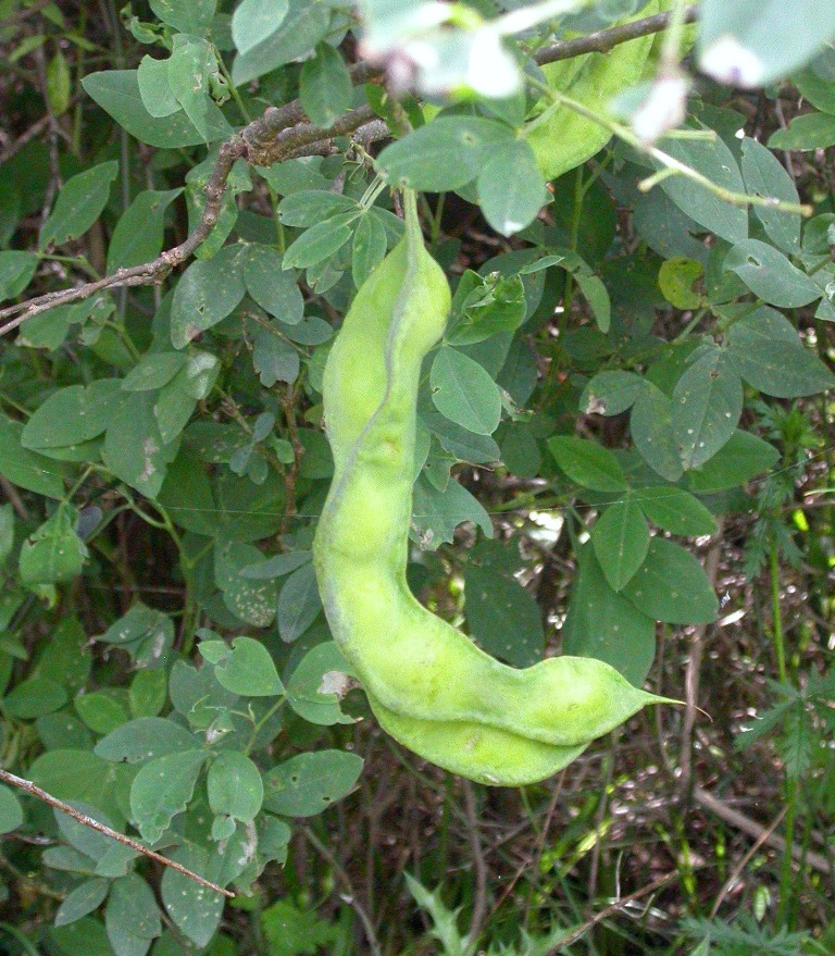 Immature fruit of Anagyris foetida, Monte Gargano, Italy